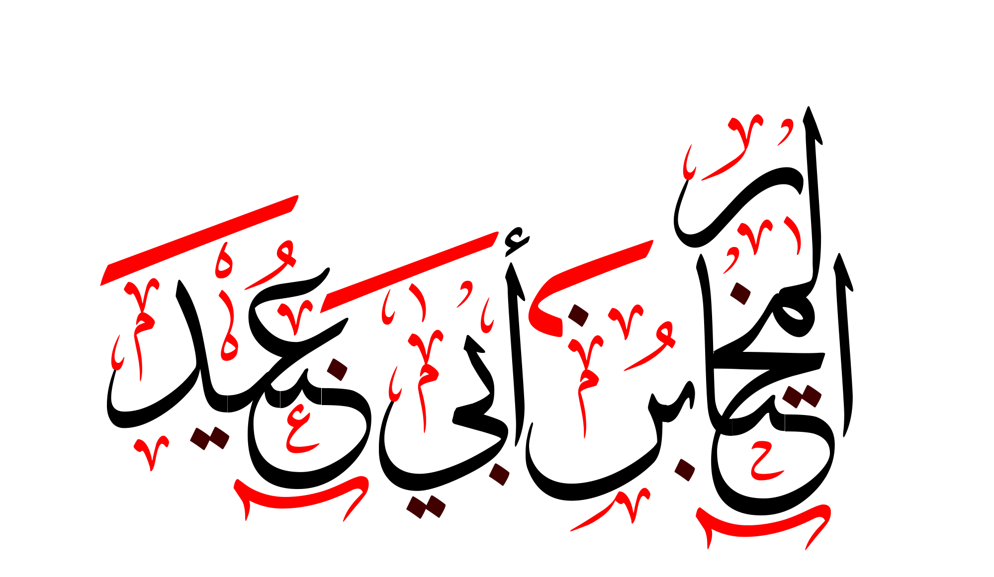 المختار بن أبي عبيد